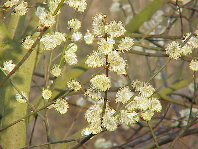 Species: Salix caprea Family: Salicaceae Image No. 9